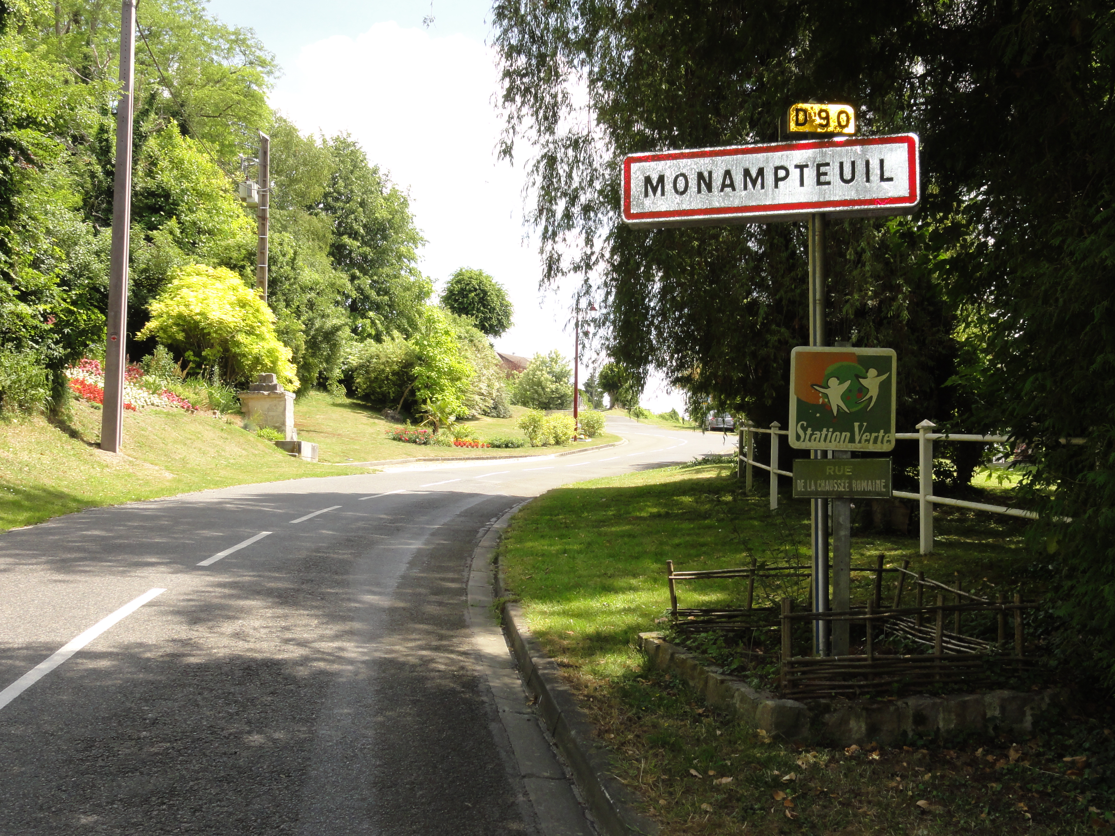 Monampteuil (Aisne) city limit sign